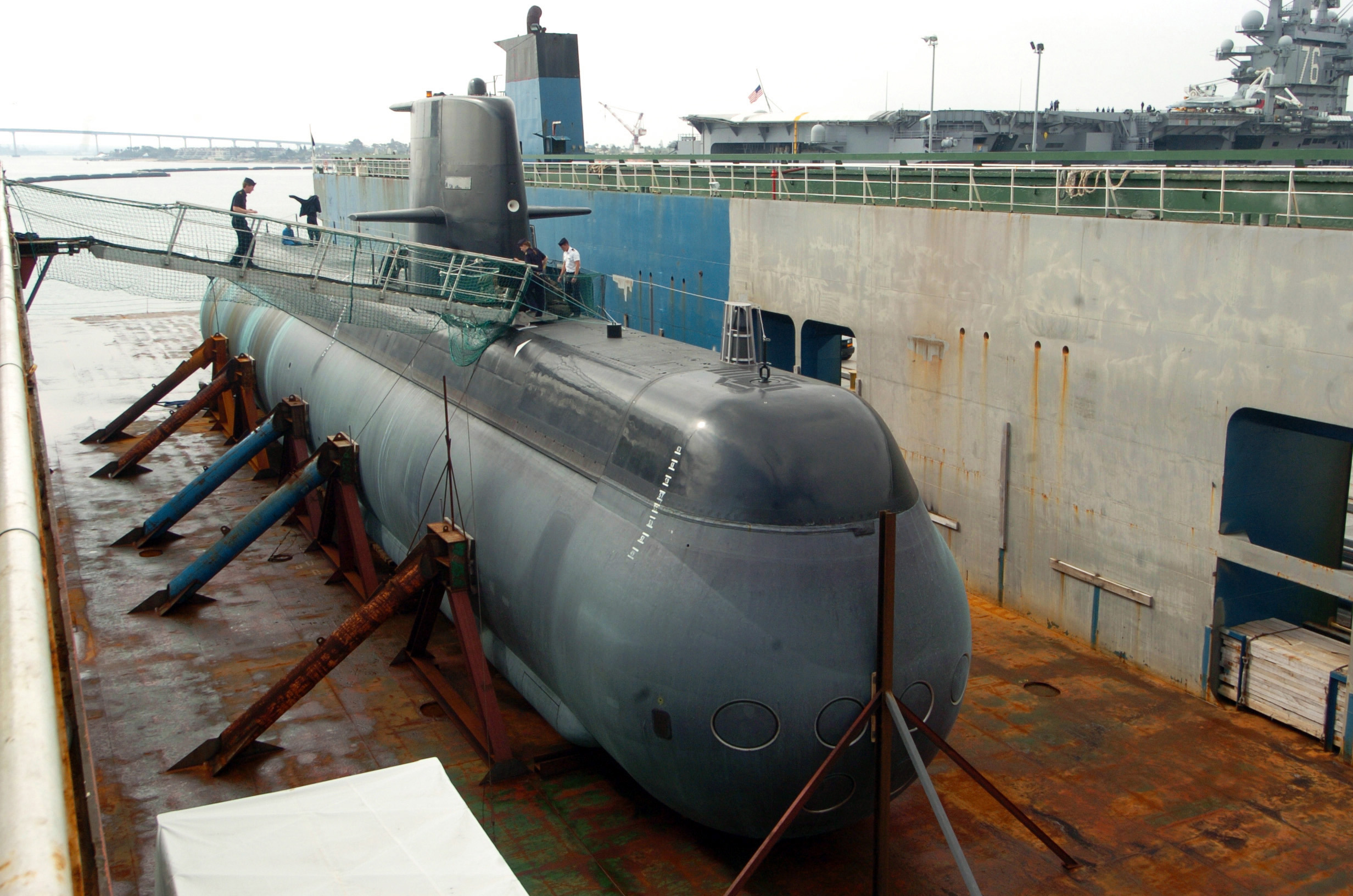 San Diego, Ca. (June 27, 2005) – The Swedish Navy Type (A 19) Stirling engine-powered attack submarine HMS Gotland arrives in San Diego on a transport ship from Sweden, as it arrives at San Diego, California (CA). The Gotland class is due to its unusual engine capable of being submerged for weeks. Gotland will begin a one-year bilateral training effort with the U.S. Navy’s anti-submarine warfare forces in July. (RELEASED)